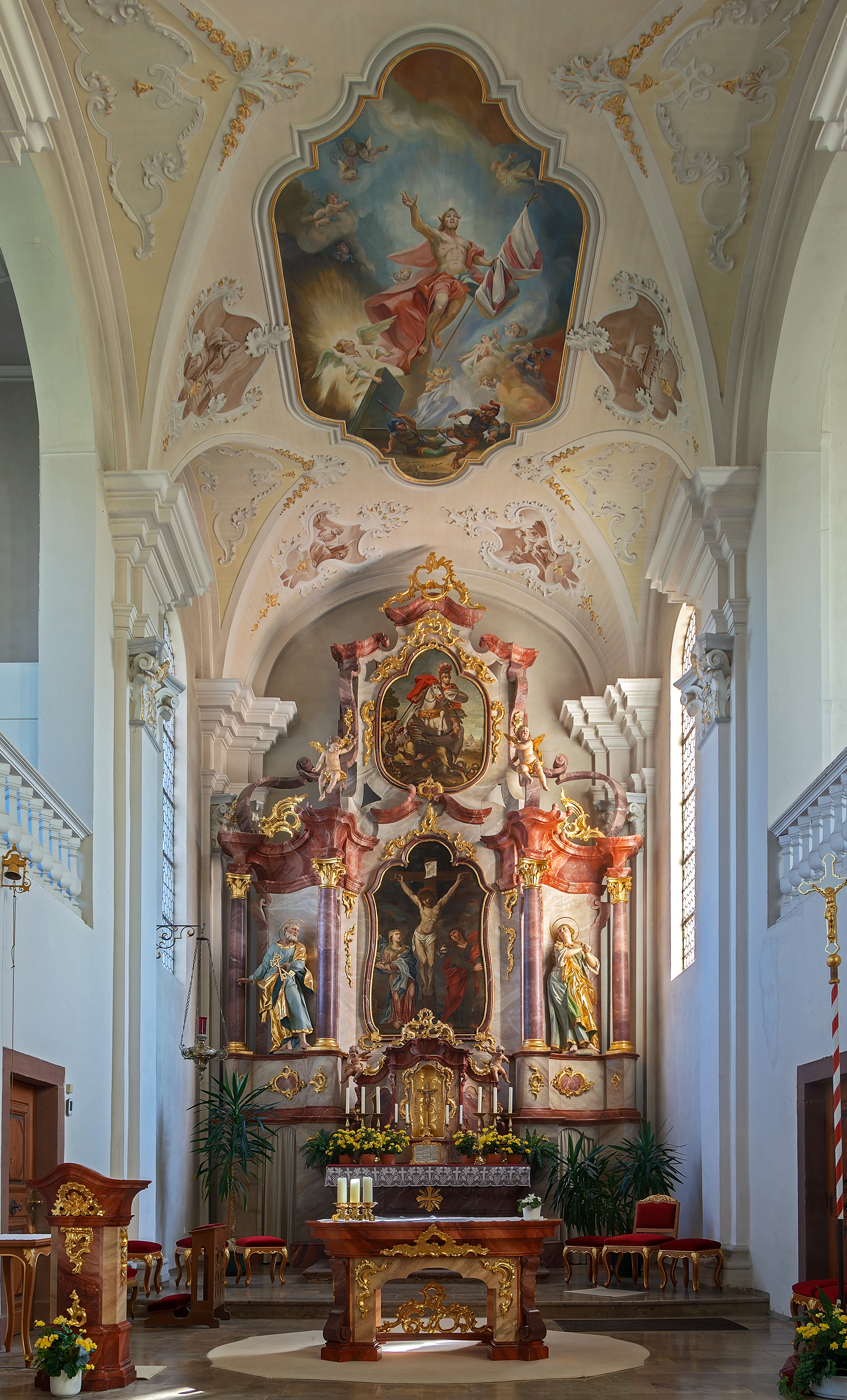 Chancel of the parish church St. Georg, built in 1750 - 1751 by Peter Thumb (1681–1767), Hüfingen-Mundelfingen, Baden-Württemberg, Germany.